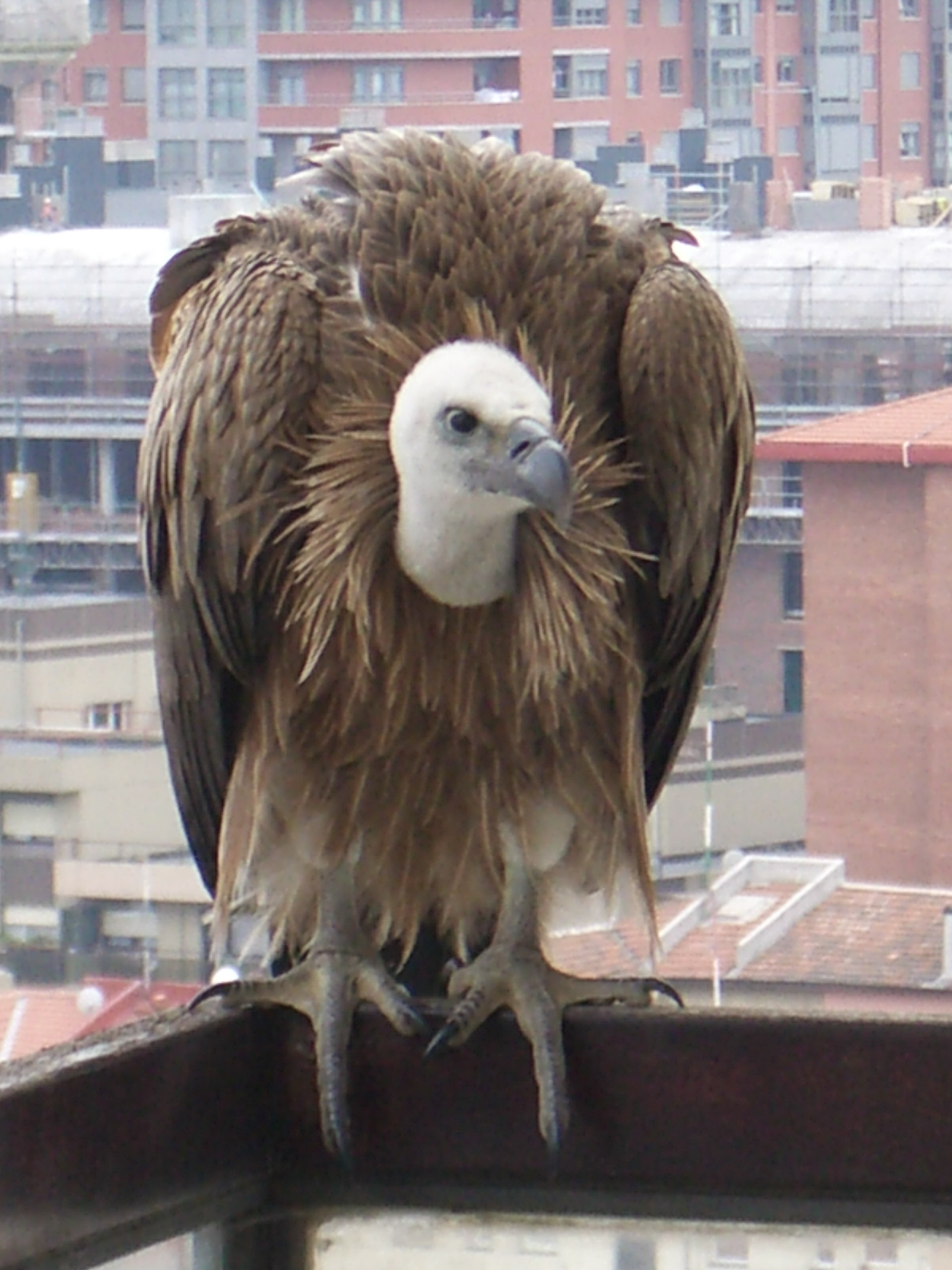 A Griffon Vulture in the city of Bilbao, Basque Country